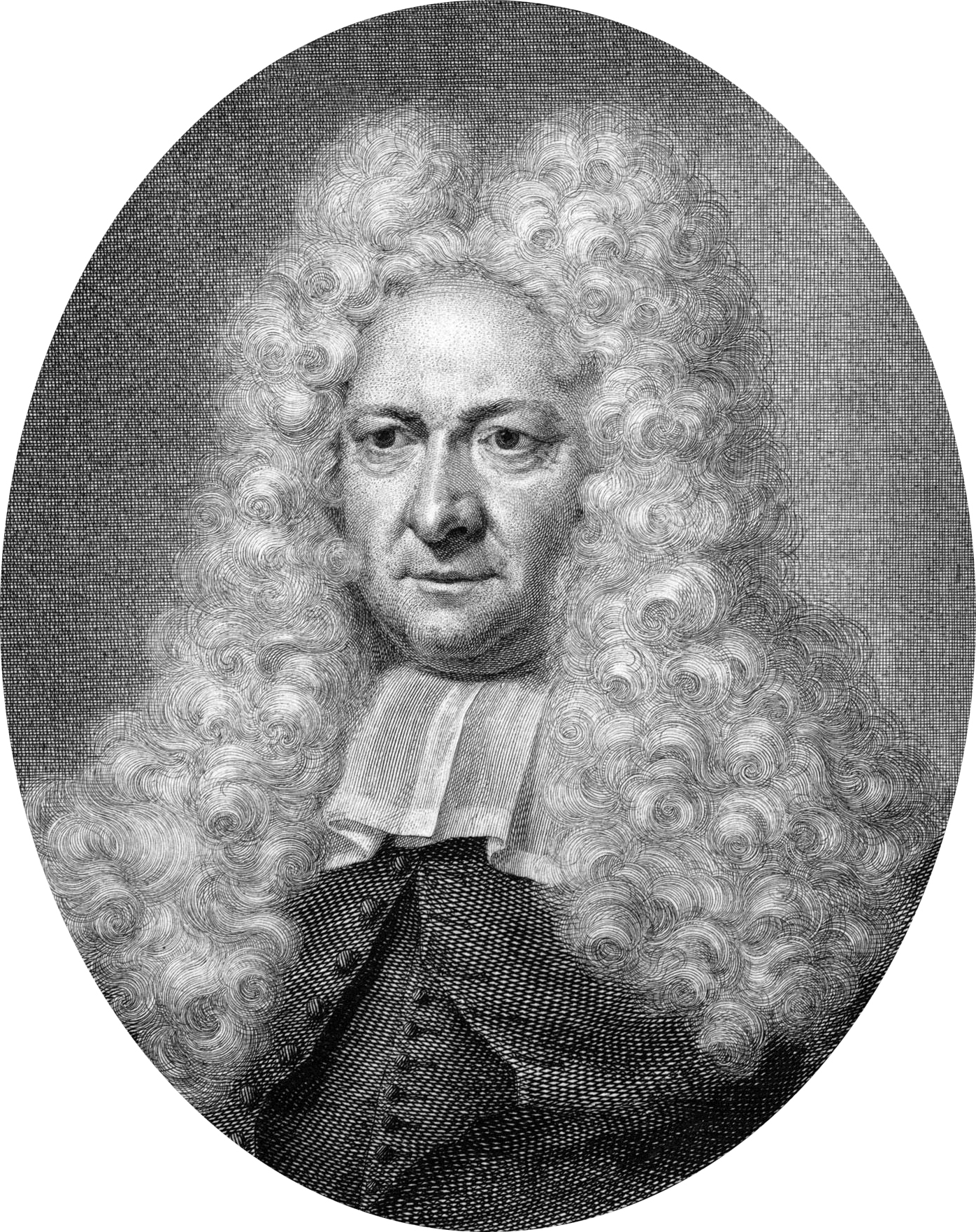 Lieve Geelvinck (1676-1743) engraving c. 1730 - c. 1743